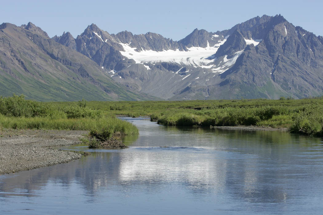 Togiak National Wildlife Refuge